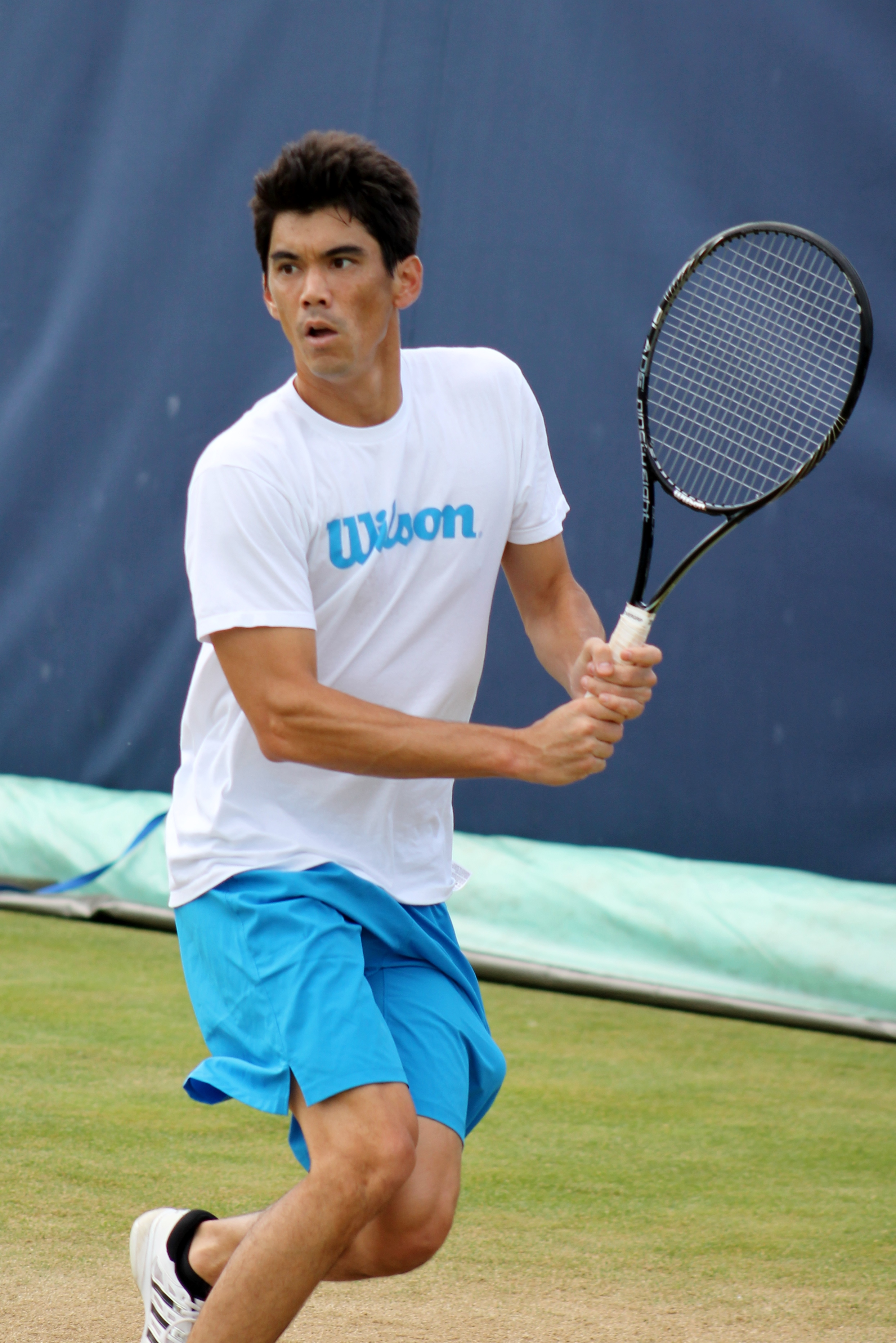 Michael Yani practices at Queens Club 2013